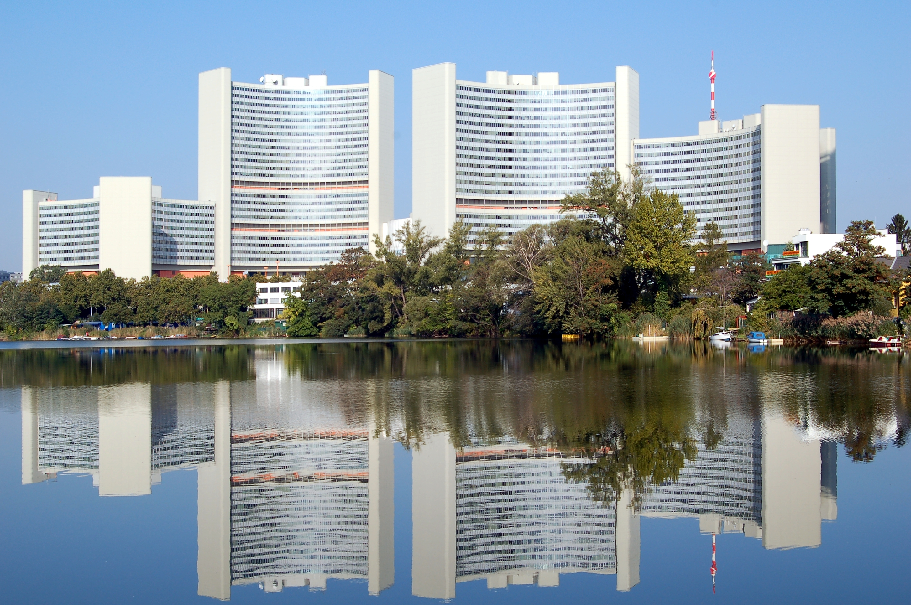 Austria, Vienna, Vienna International Centre